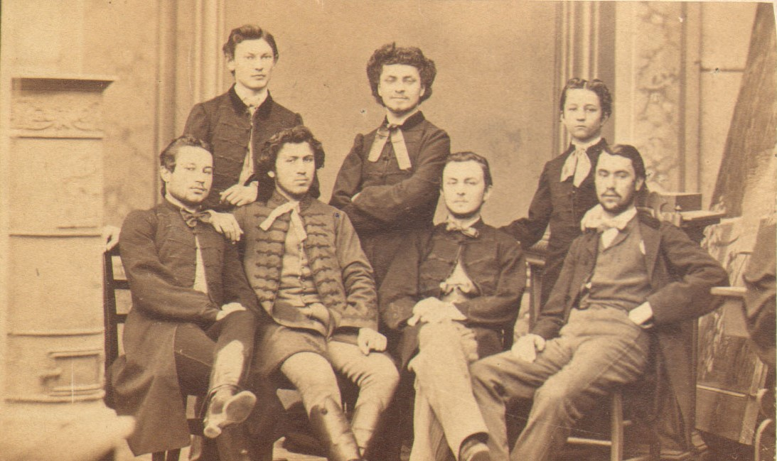 Photograph of the members of the Serbian Student Literary Fellowship in Pécs: Standing (from left to right) - Mladen Mađarević, Stevan Jeftić, Milan Savić Sitting (from left to right) - Đoka Mijatović, Milivoj Toponarski, Ilija Vučetić, Ilija Ognjanović. Srpski (latinica): Fotografija članova Srpske đačke literarne družine u Pečuju: Stoje (sa leva, na desno) - Mladen Mađarević, Stevan Jeftić, Milan Savić Sede (sa leva na desno) - Đoka Mijatović, Milivoj Toponarski, Ilija Vučetić, Ilija Ognjanović.